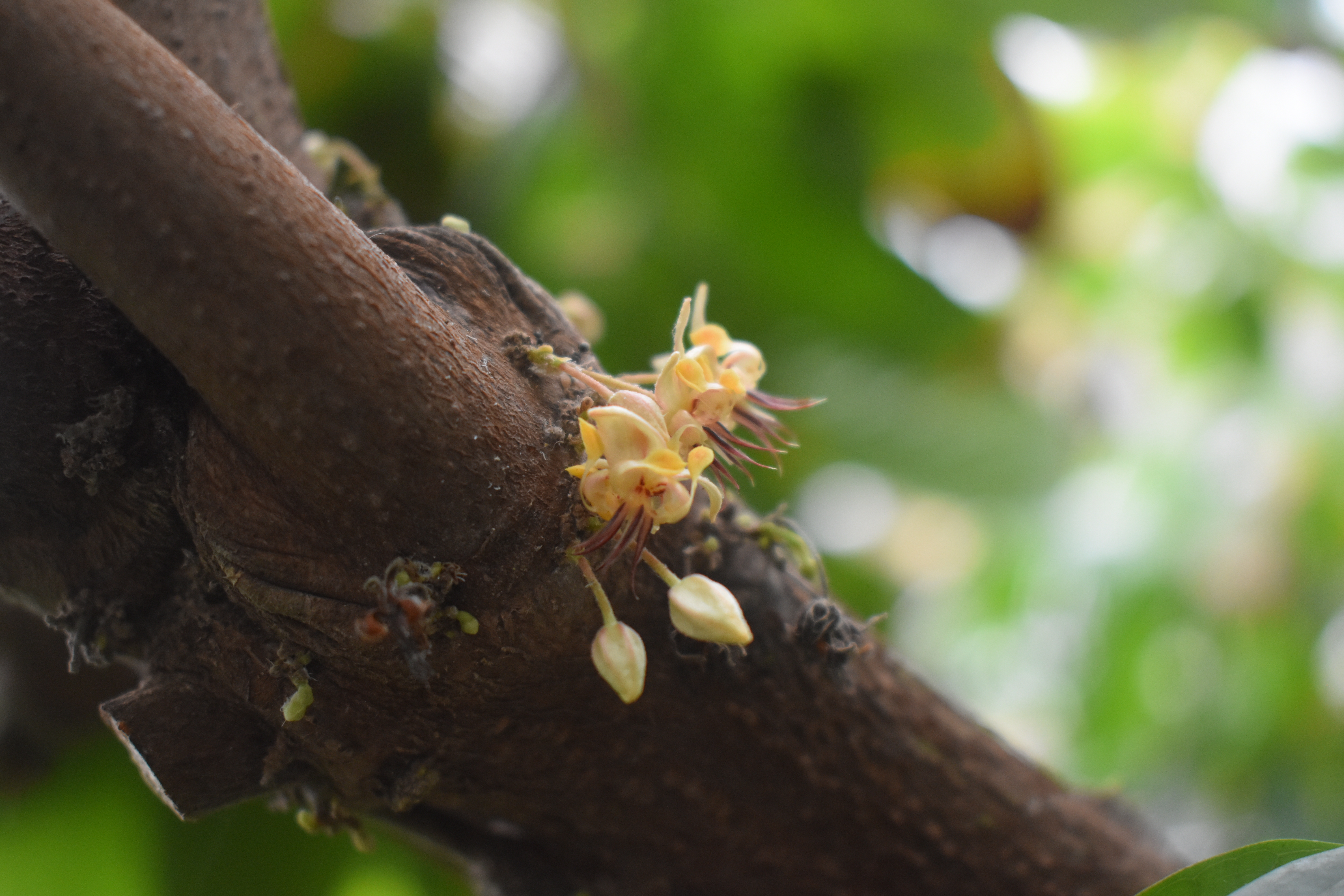 Flowers of cocoa tree, growing on stem. Photographed in Victoria greenhouse of Hortus Botanicus Leiden.